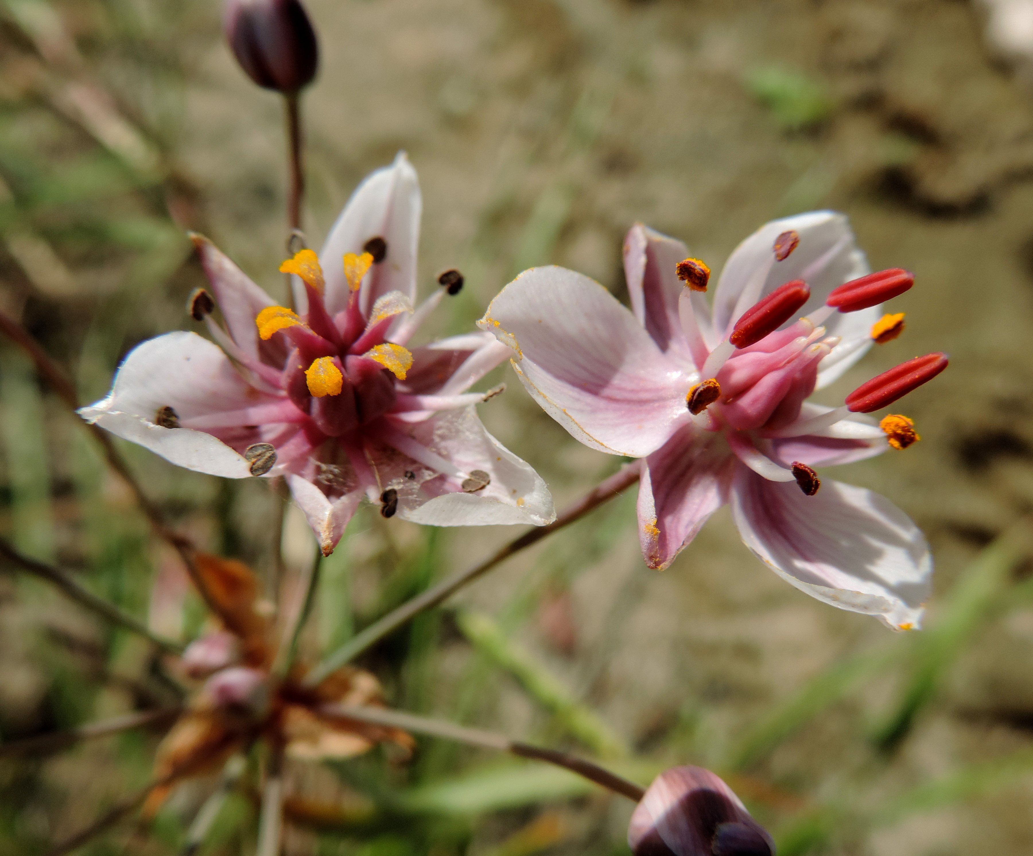 Butomus umbellatus. Czerwieńsk on Odra river, W Poland